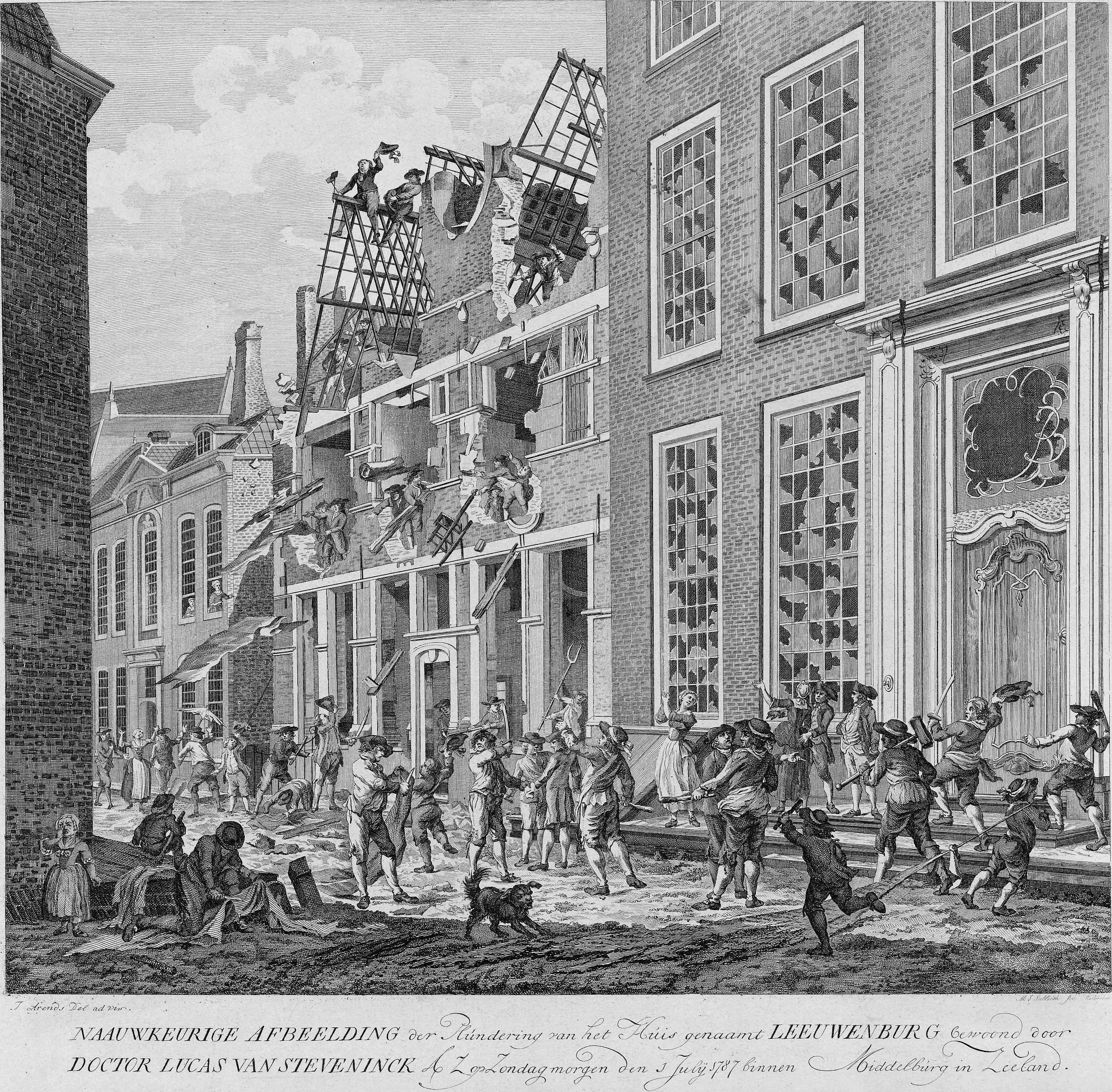 After they shot onto it with a canon Orangists plunder the ruined House Leeuwenburg owned by the Patriot doctor Lucas van Steveninck, July 1, 1787, Middelburg, province of Zeeland, the Netherlands.